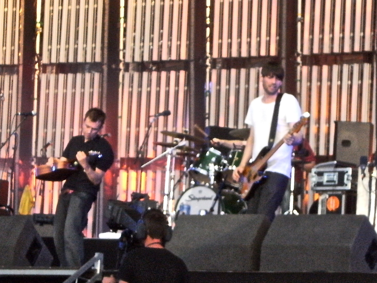 Blur on stage